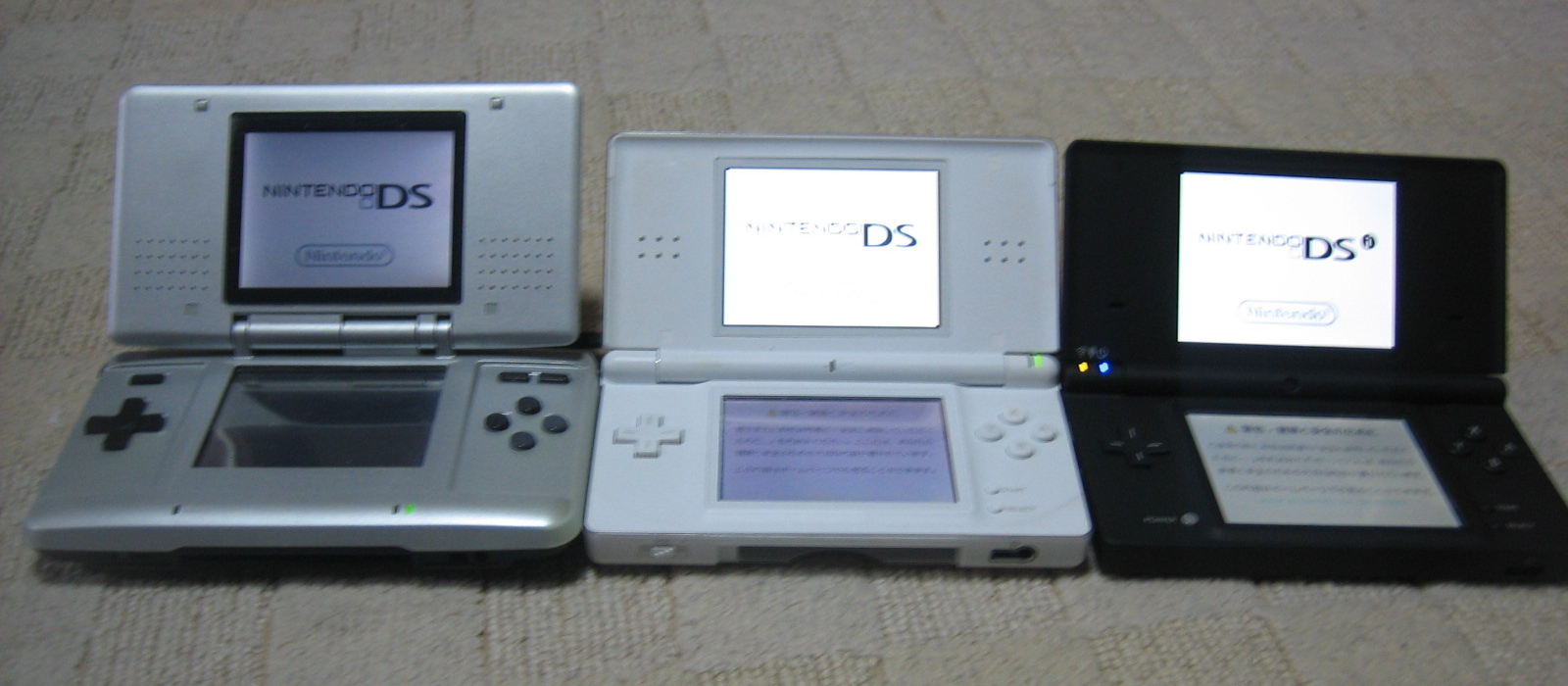 Cropped picture of File:Nintendods series ds dslite dsi.jpg